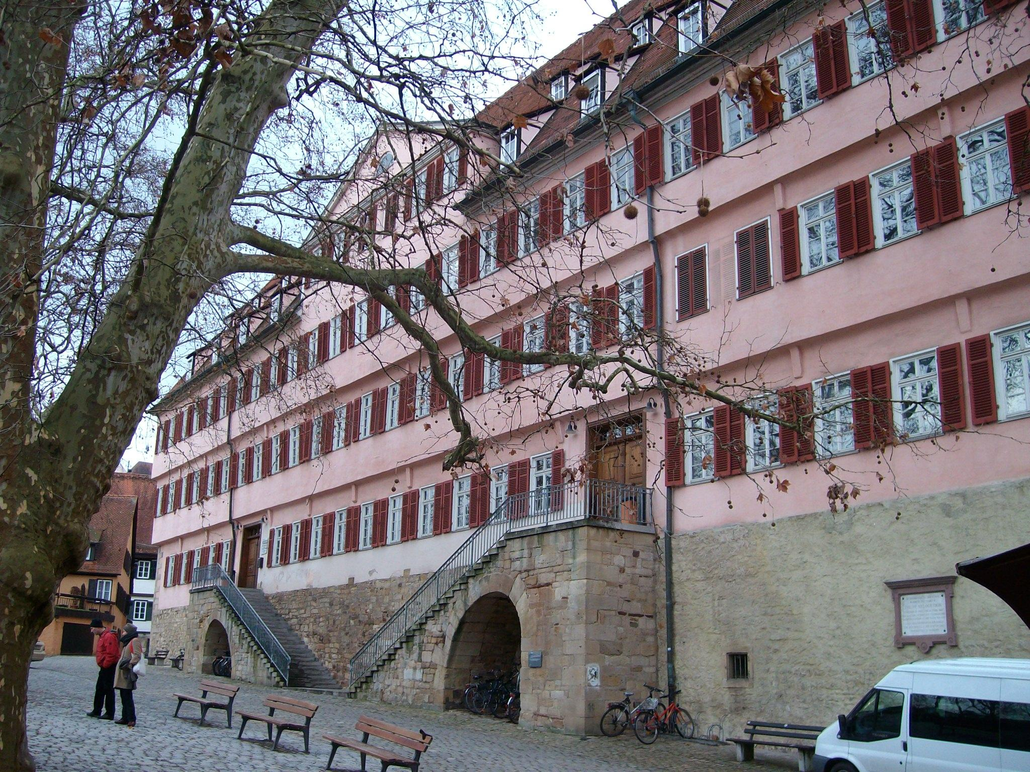 Burse, seen from the southeast (Bursagasse)